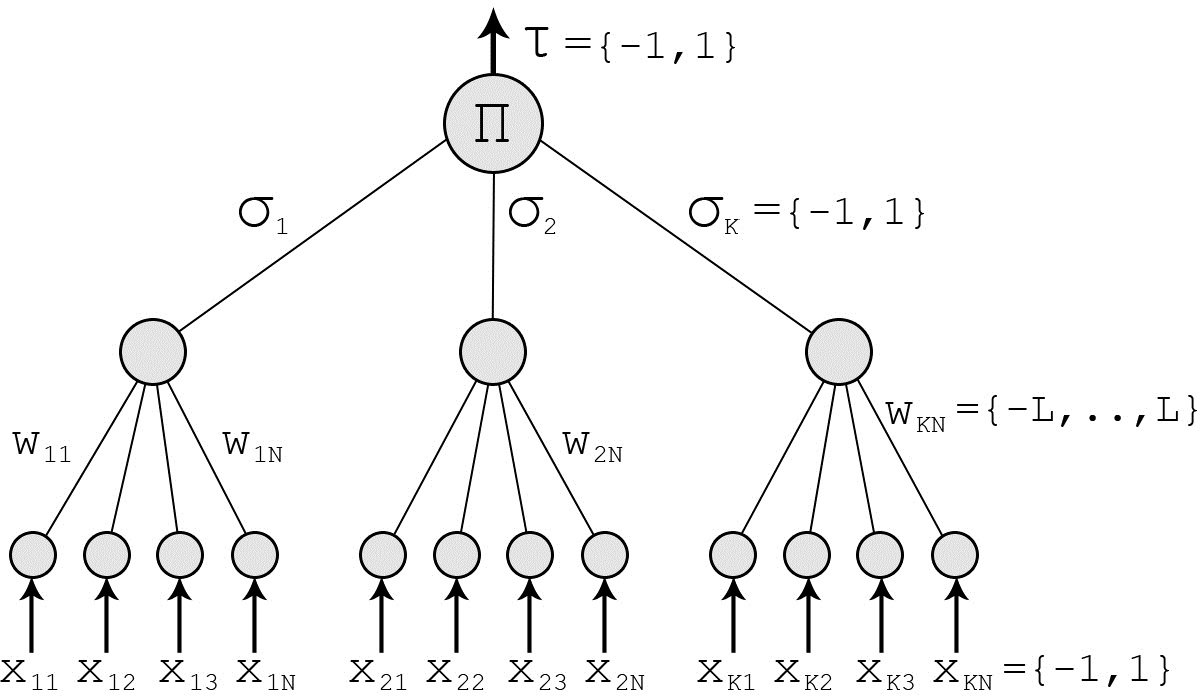 Tree Parity Machine used in Neural cryptography